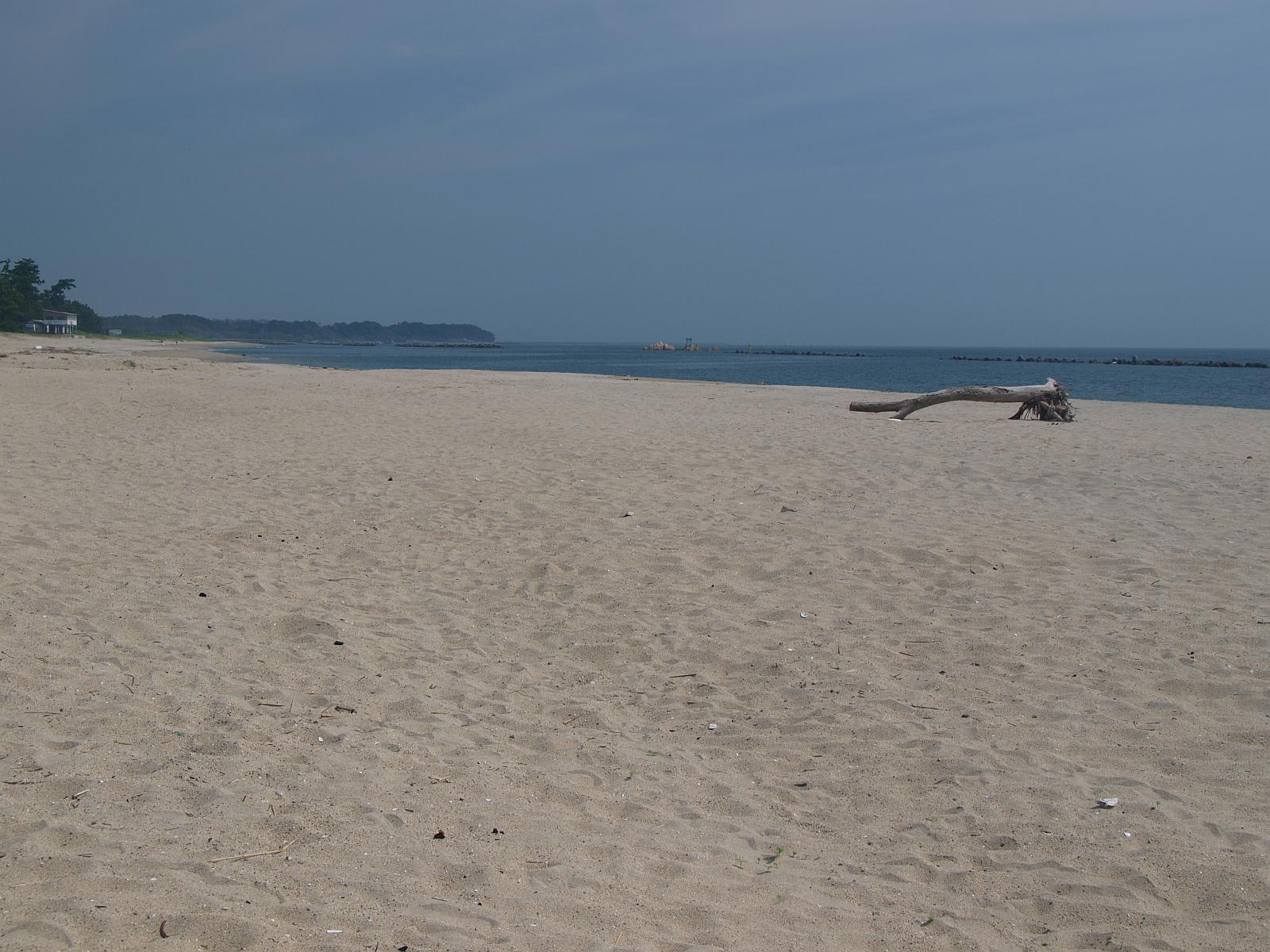 Nata Beach, Kitsuki City, Oita, Japan